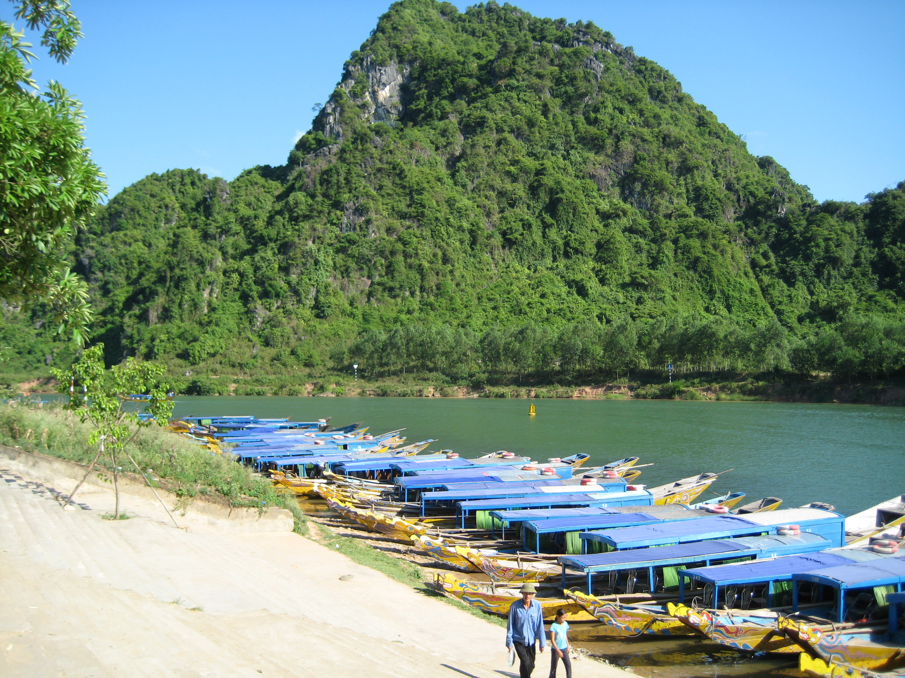 Boats for tourists in Phong Nha-Ke Bang, Vietnam